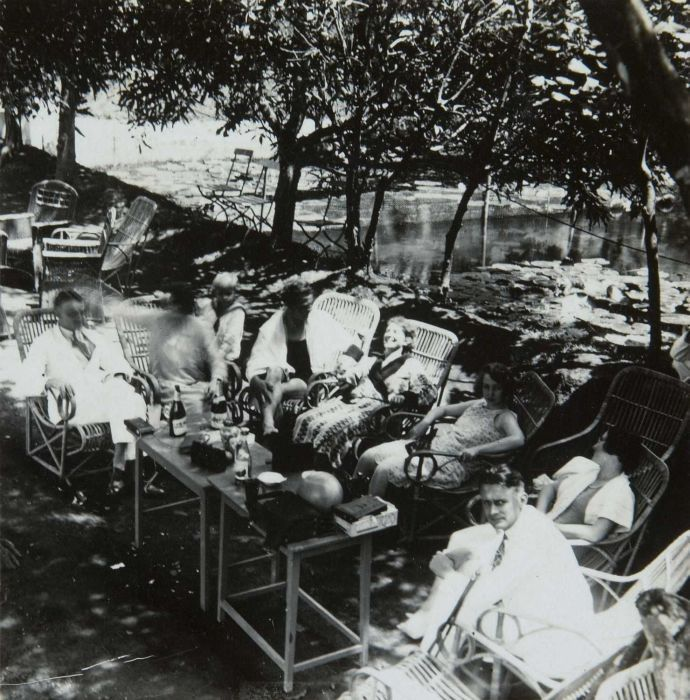 European people sitting at the pavement café of the bathing place Kali Bening